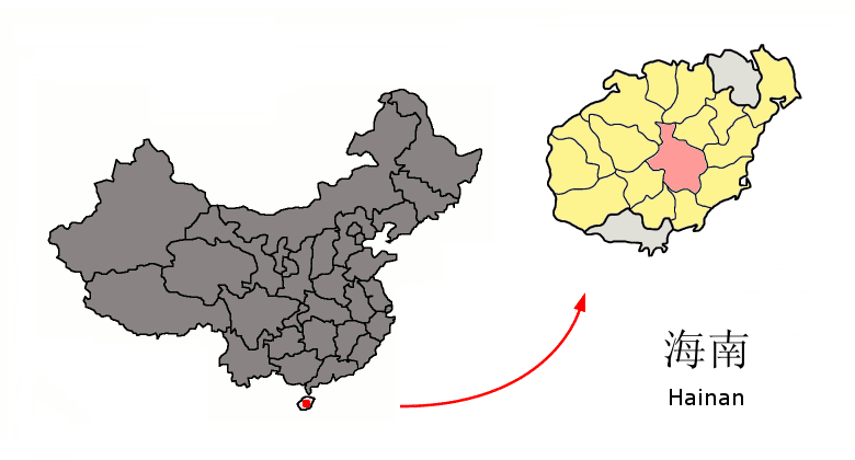 Location of Qiongzhong County (pink) and the subdivisions directly administered by the province (yellow) within Hainan province of China Map drawn in september 2007 using various sources, mainly : Hainan Counties map from